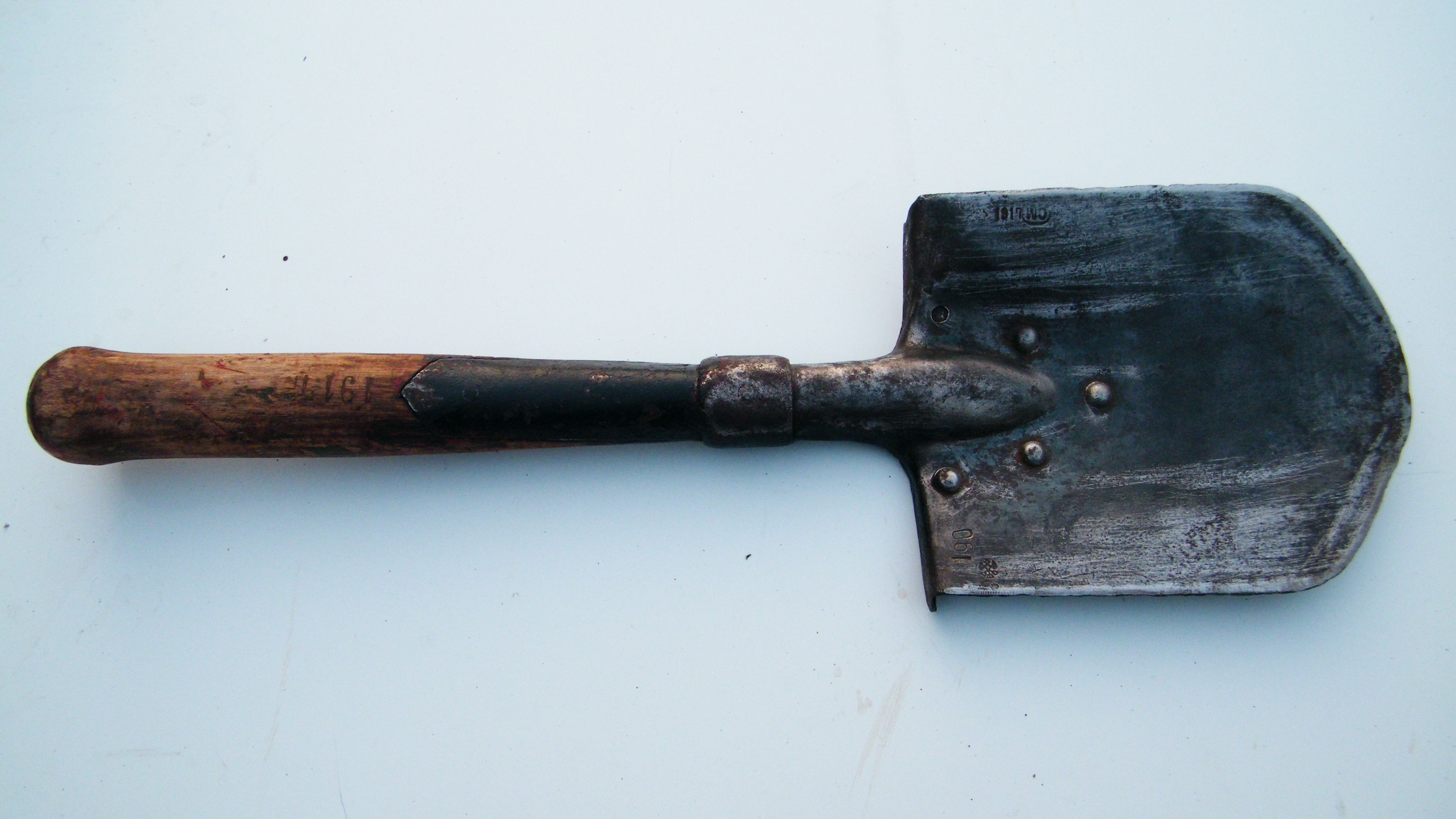 Spades